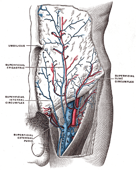 Superficial veins draining near the junction of the great saphenous vein and the common femoral vein. The superficial epigastric vein and the superficial circumflex iliac vein generally drain into the great saphenous vein.- (2009). "Venous valves and major superficial tributary veins near the saphenofemoral junction". Journal of Vascular Surgery 49 (6): 1562–1569. ISSN 07415214.